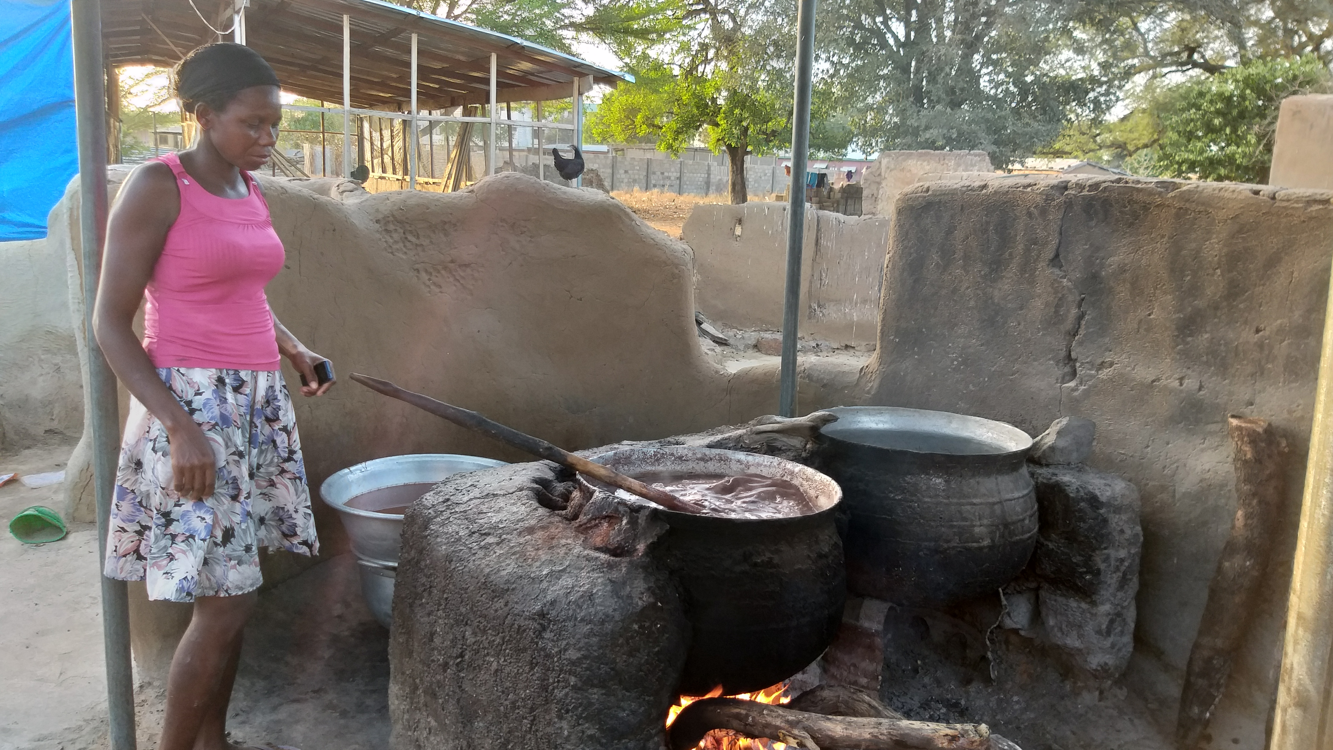 Pito, is a local beverage made from Millet. The background depicts a traditional kitchen in Ghana. This photo has been taken in the country: Ghana